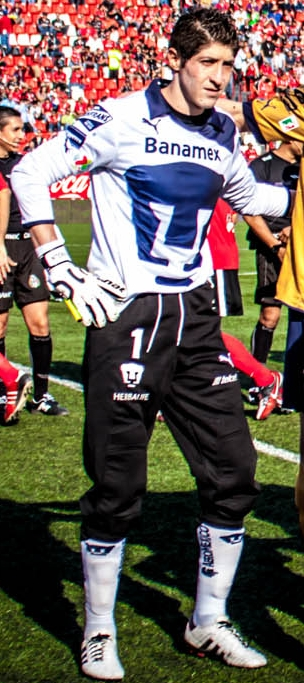 Alejandro Palacios at Xolos de Tijuana vs Pumas de la UNAM. August 3, 2012.